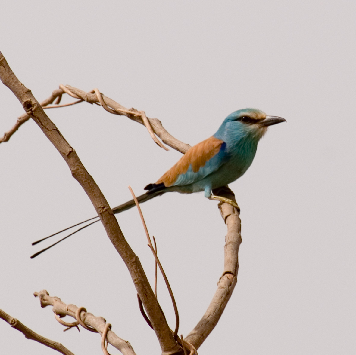 An Abyssinian Roller (Coracias abyssinica)